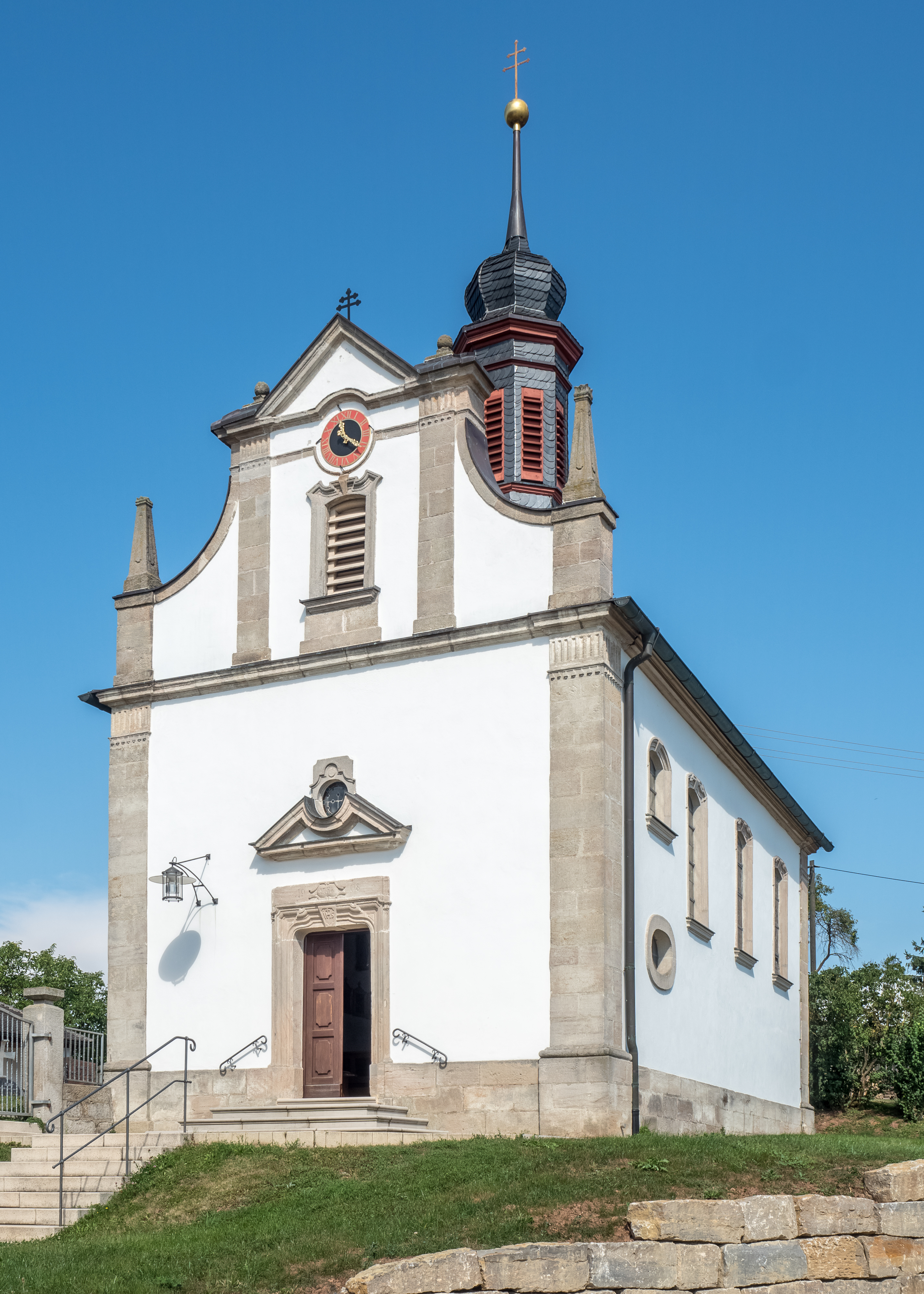 St. Nicholas Church in Kimmelsbach. 758-63,1908 extended.